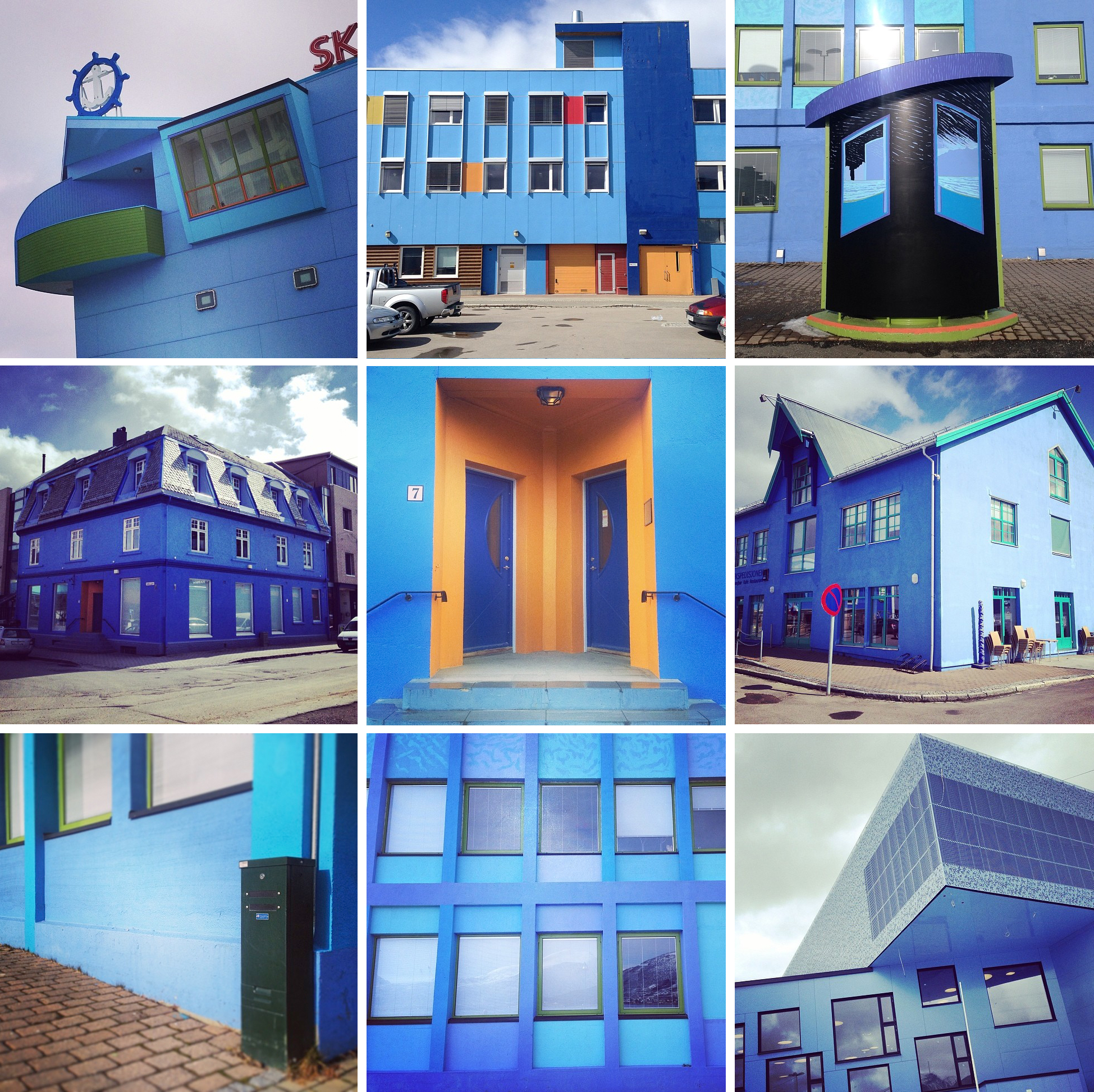 Bits and pieces of the blue city, Sortland.